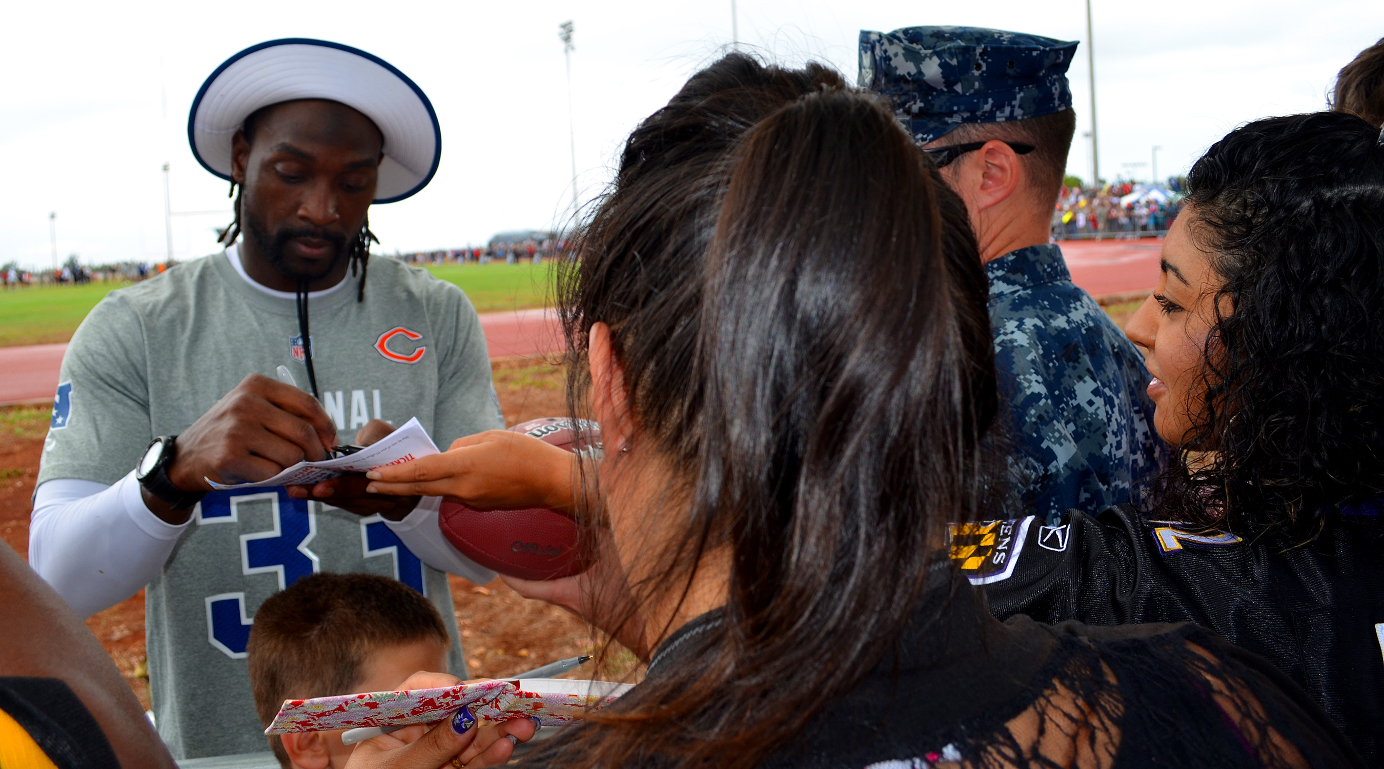 National Football Conference Pro Bowl player Charles Tillman of the Chicago Bears signs autographs for Joint Base Pearl Harbor-Hickam service members and their families’ during the 2013 Pro Bowl practice at the Earhart Field, JBPHH, Hawaii, Jan. 24, 2013. (U.S. Air Force photo/Tech. Sgt. Jerome S. Tayborn)